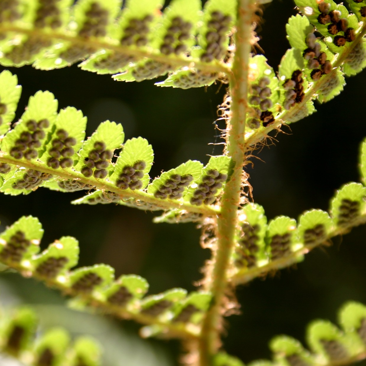 Sori (spore capsules) of Dryopteris sp.; somewhere in Germany